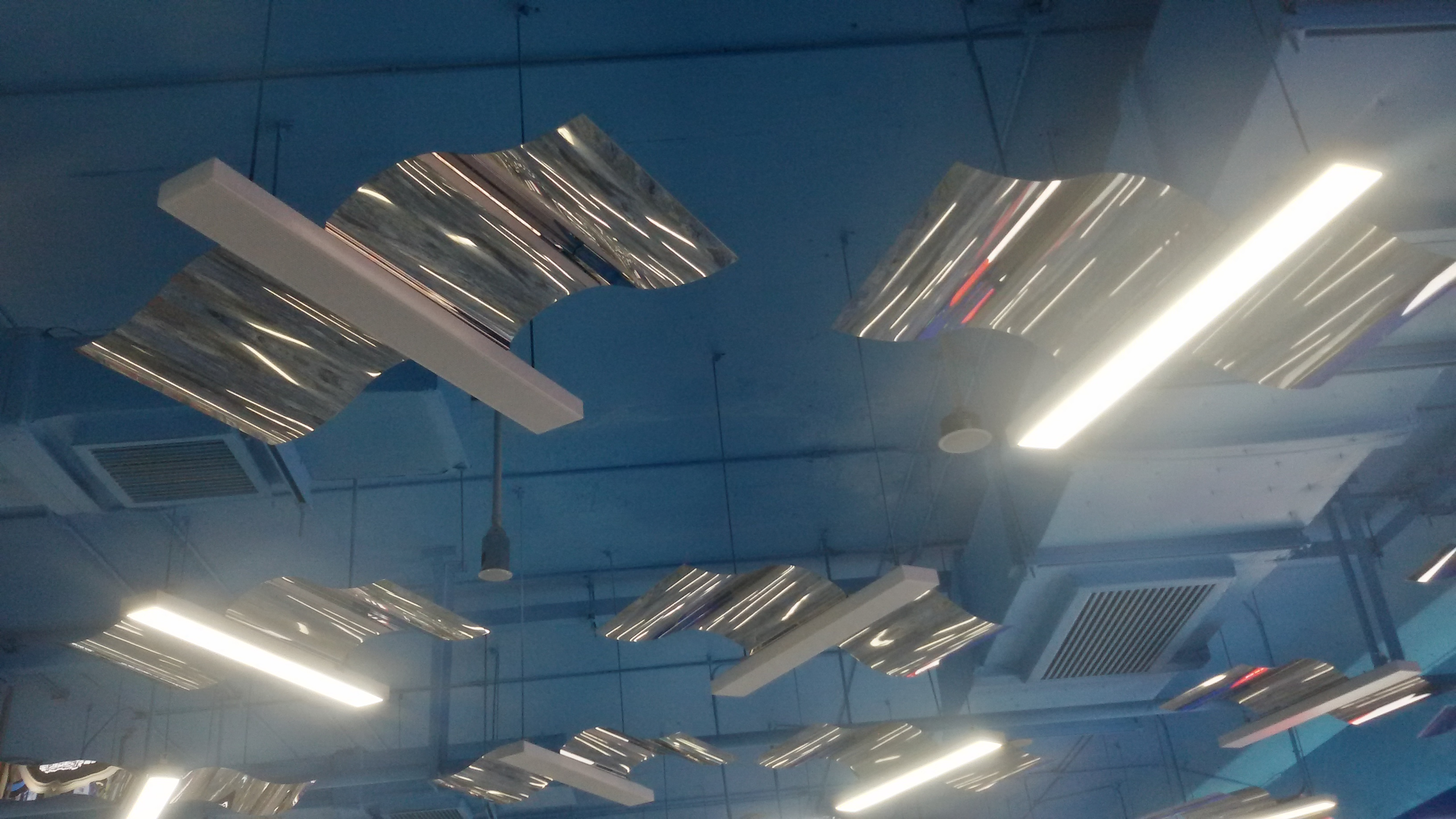 Decoration for seagull-like lights above the ceiling in Nansha Passenger Port Station, Guangzhou Metro.